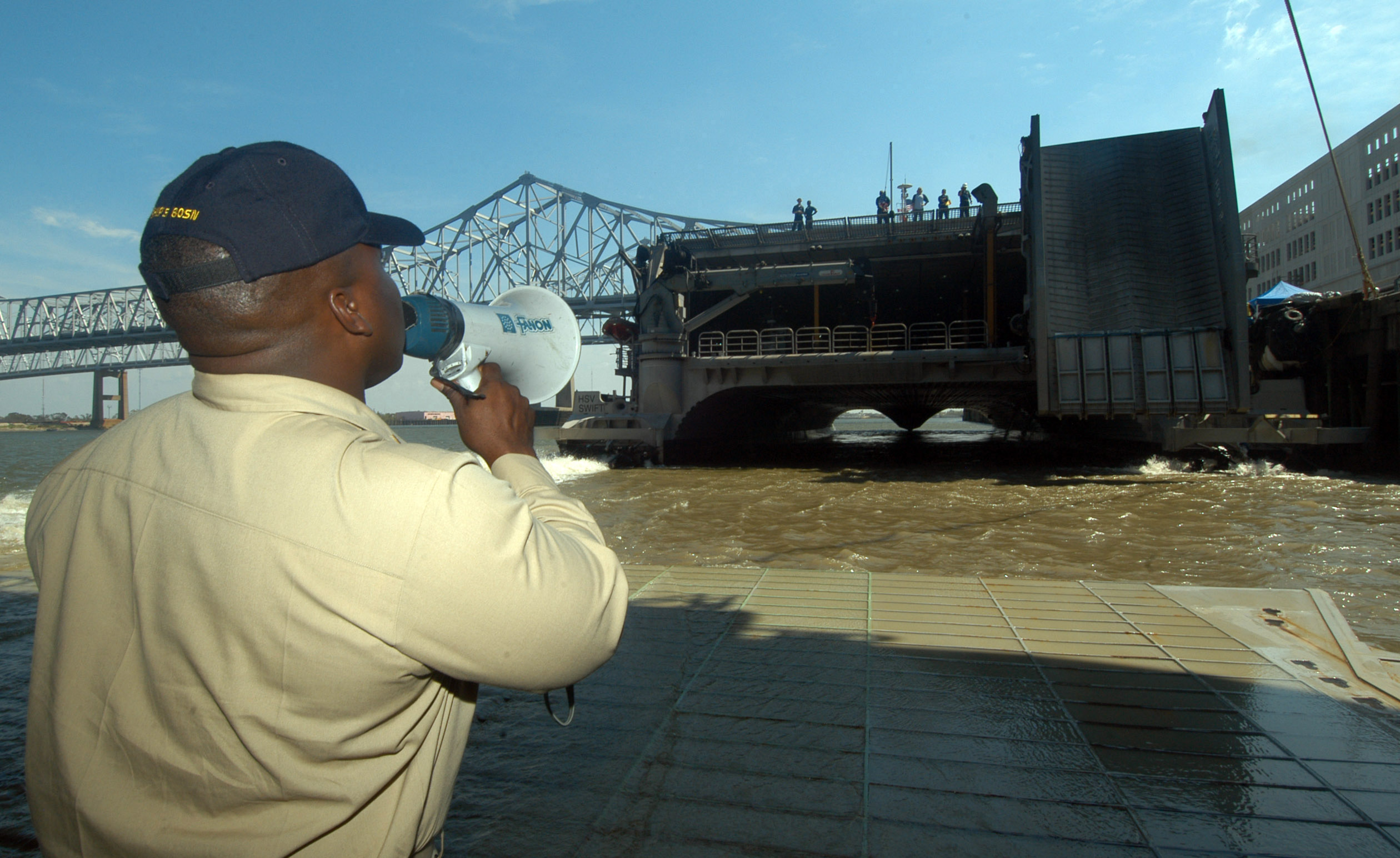 New Orleans (Sept. 6, 2005) – U.S. Navy Chief Warrant Officer Tony Cochran speaks through a megaphone to Sailors aboard the High Speed Vessel (HSV-2) Swift as it prepares for a vertical replenishment of supplies aboard the amphibious assault ship USS Iwo Jima (LHD 7). Iwo Jima is currently in port in the city of New Orleans serving as the command and control center for Joint Task Force Katrina, the combined military effort to provide aid for the areas hit by Hurricane Katrina. The Navy's involvement in the Hurricane Katrina humanitarian assistance operations is led by the Federal Emergency Management Agency (FEMA), in conjunction with the Department of Defense. U.S. Navy photo by Photographer's Mate 3rd Class Christian Knoell (RELEASED)